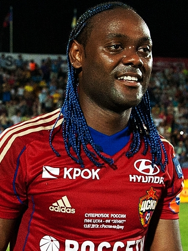 Brazilian football forward Vágner Love